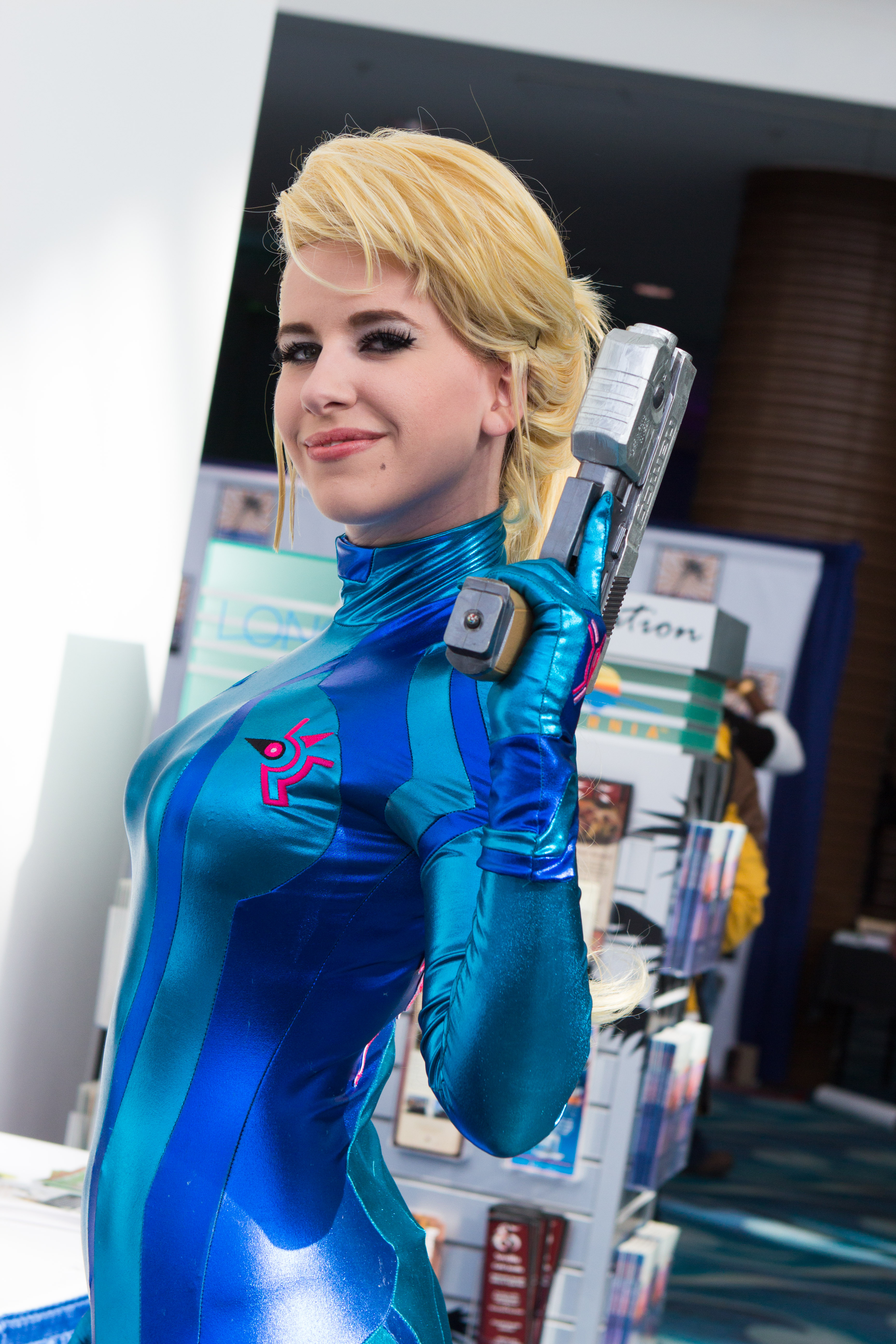 Samus Aran Cosplay at Long Beach Comic Con 2013.